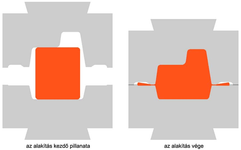 Drop forging